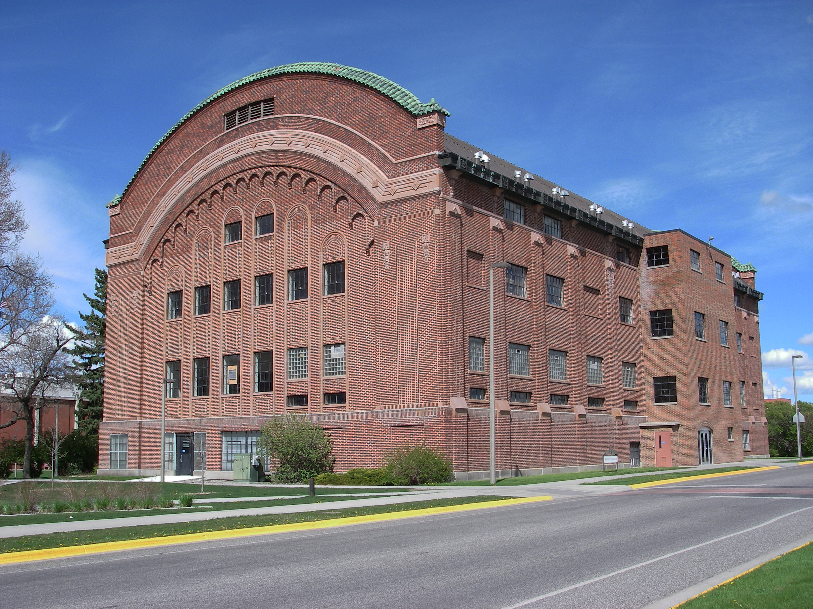 Romney Gym, Montana State University, Bozeman, Montana